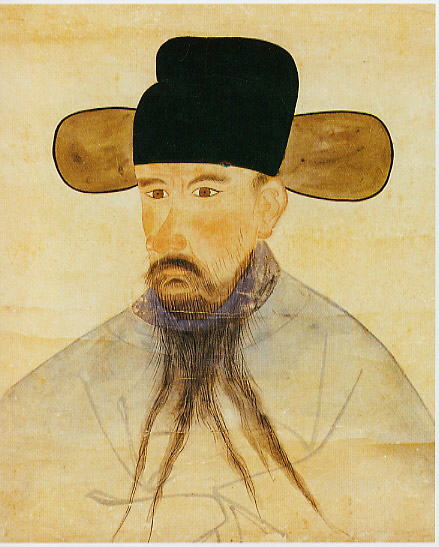 Korea-Portrait of Heo Gyo-Joseon Dynasty